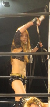 Japanese professional wrestler, Maya Yukihi. June 25 2017, OZ Academy, Yokohama International Passenger Terminal Hall.